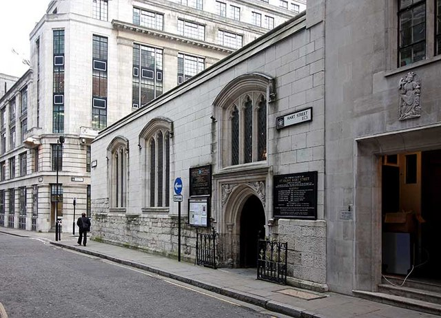 St Olave, Hart Street, London EC3